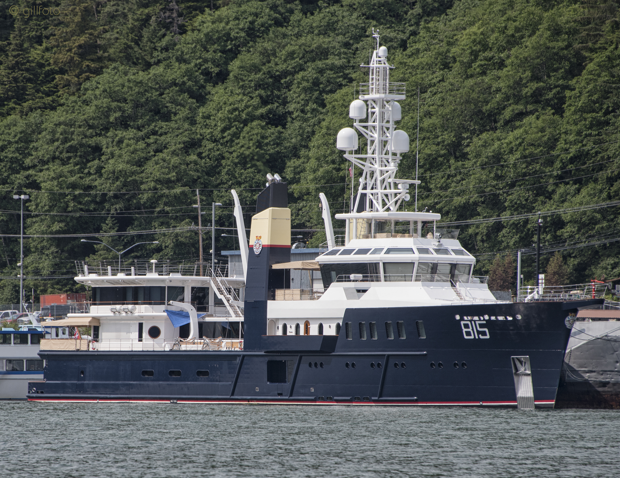 Sherpa an explorer yacht by Feadship (Dutch Shipbuilders)